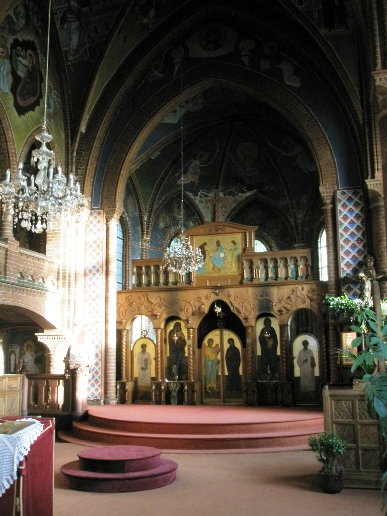 Hildesheim - Himmelthür. The church of the Serbian Orthodox Centre.